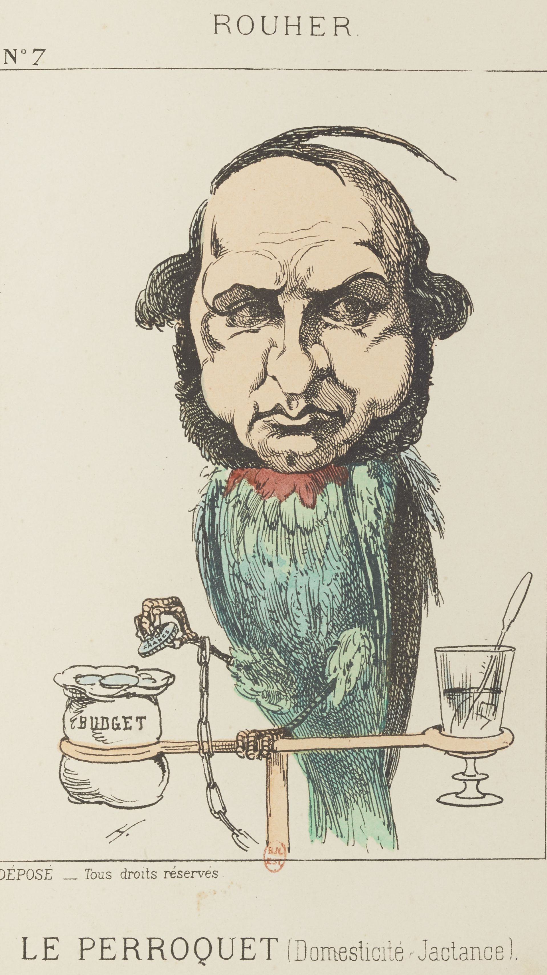 Caricature of Eugène Rouher (as a parrot).